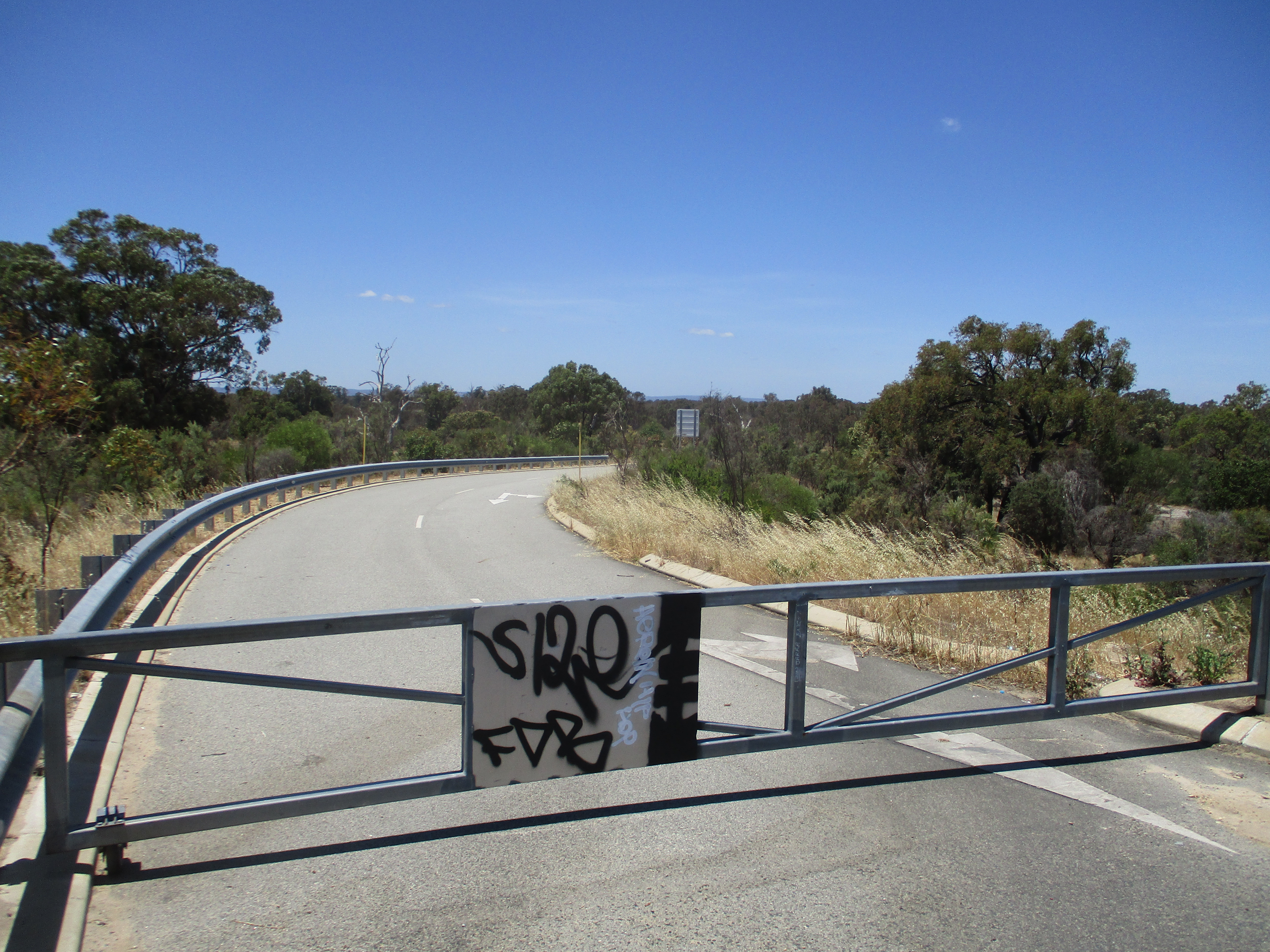 Area of the proposed suburb of Keralup, Western Australia. At the end of Paganoni Road and the beginning of Vine Road, the barrier blocking access to the undeveloped estate.